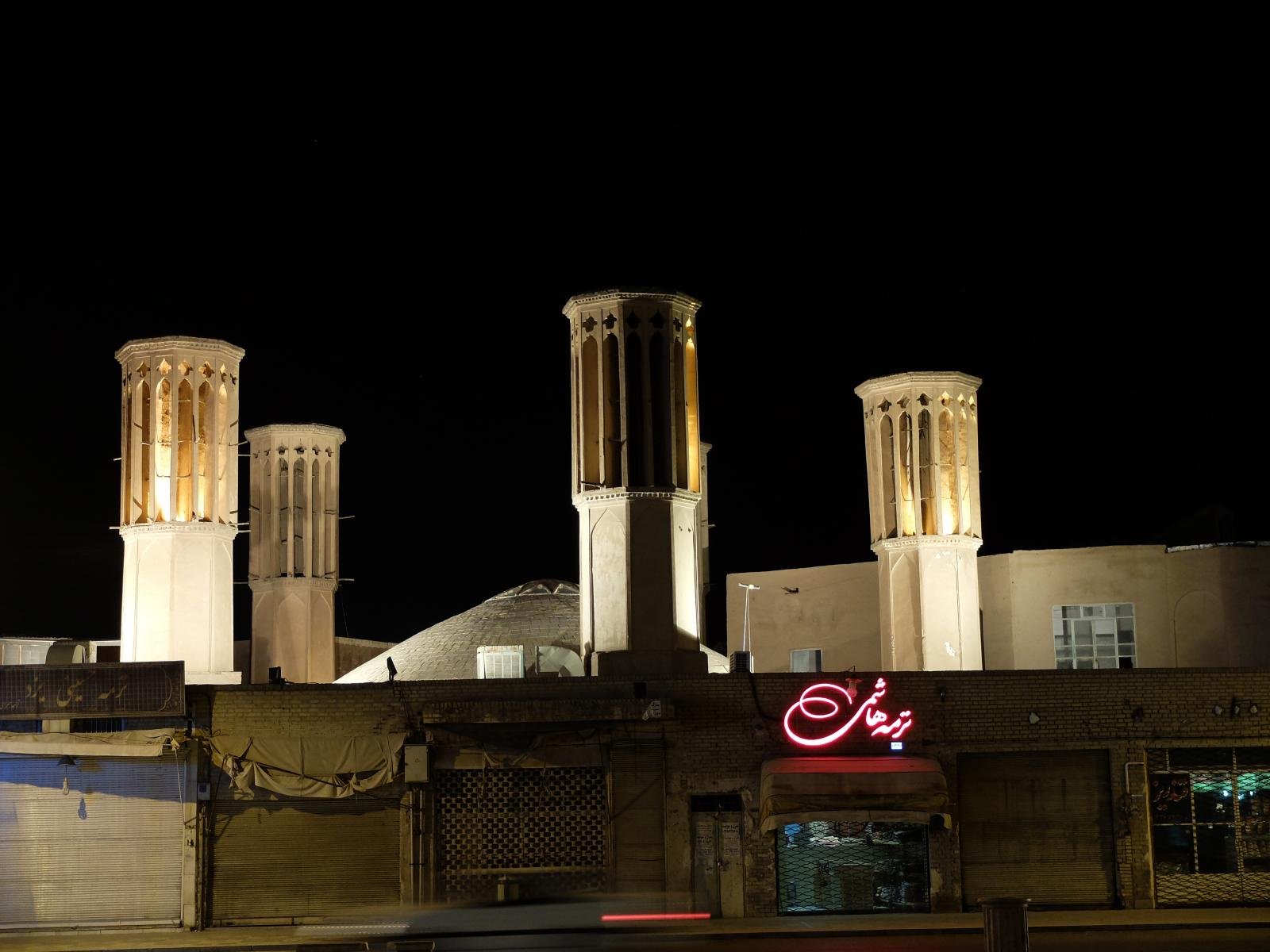 windtower in Yazd